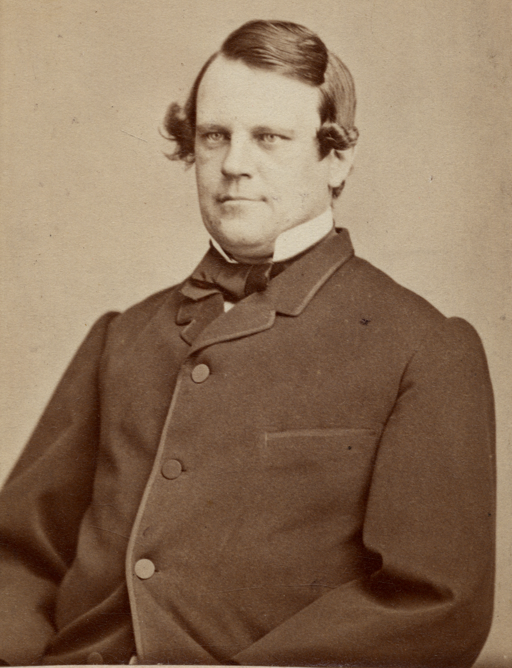 Theodor Rabenius (1823-1892), lawyer and professor